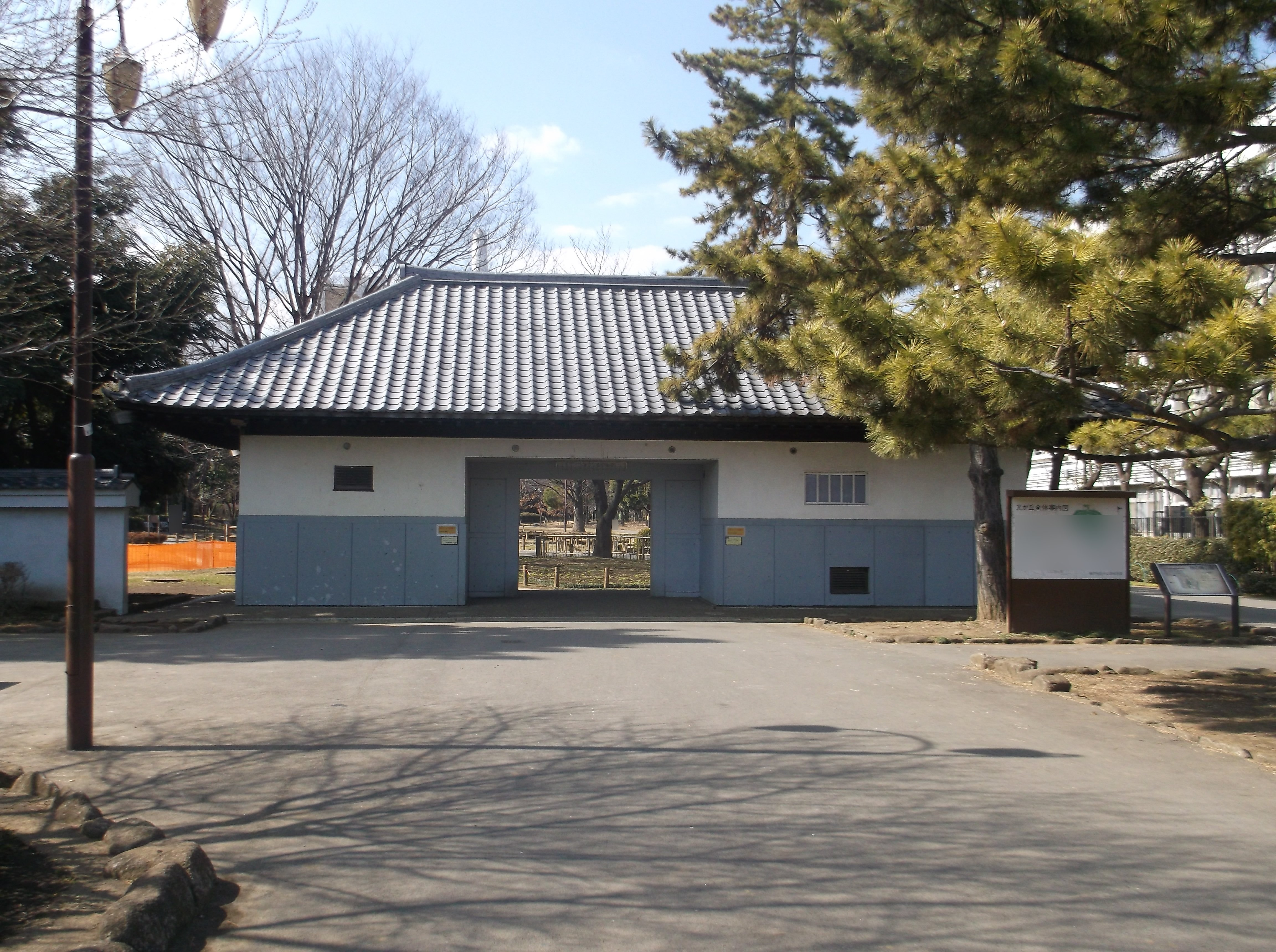 A photo of "Aki no hi(autumn's sunlight) Park",Hikarigaoka,Nerima-ku,Tokyo,Japan.